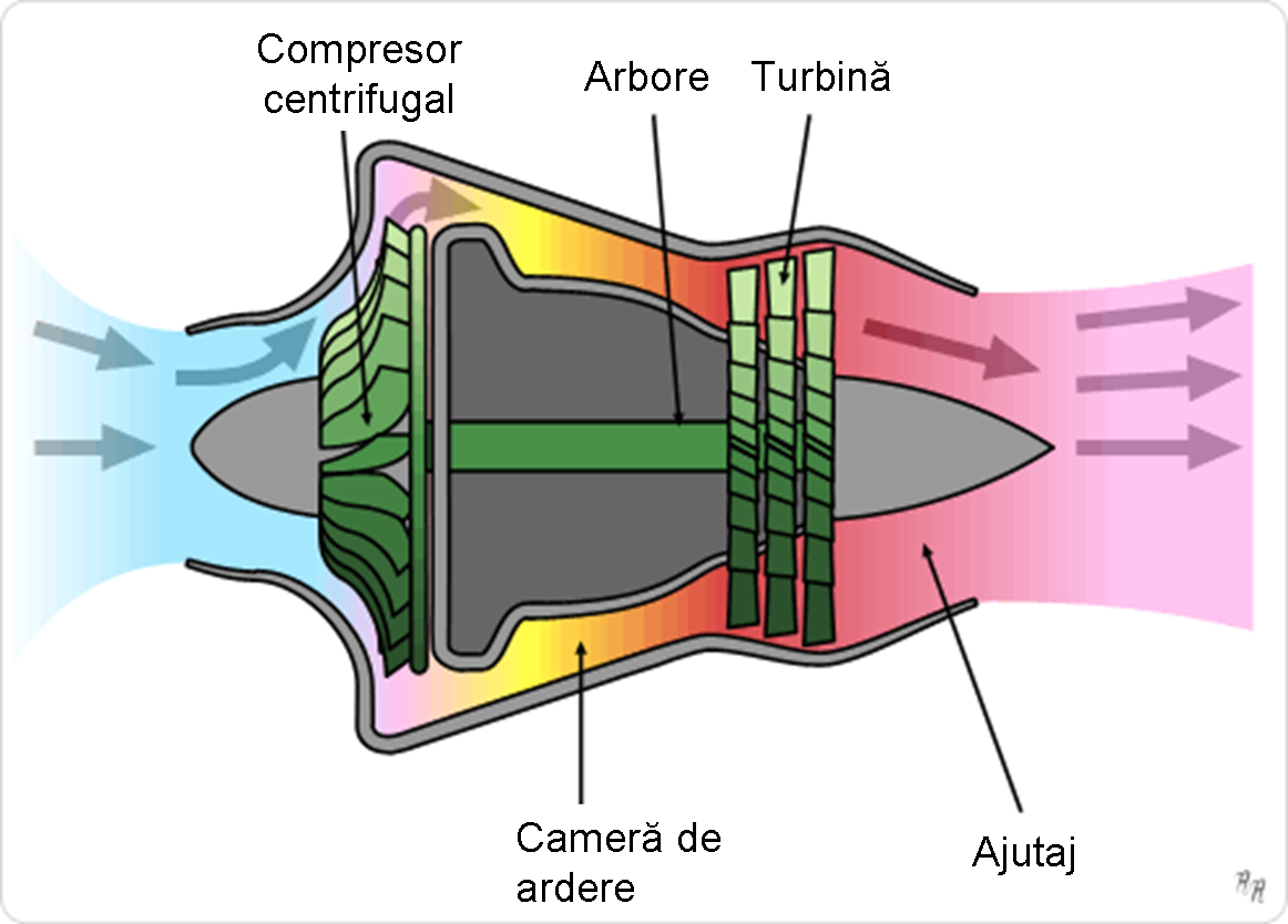 Schematic diagram of the operation of a centrifugal flow turbojet engine. Drawn using XaraXtreme by Emoscopes 03:59, 14 December 2005 (UTC) Translated by Giku